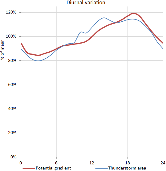 Diurnal variation electrical potential gradient in at sea level above oceans